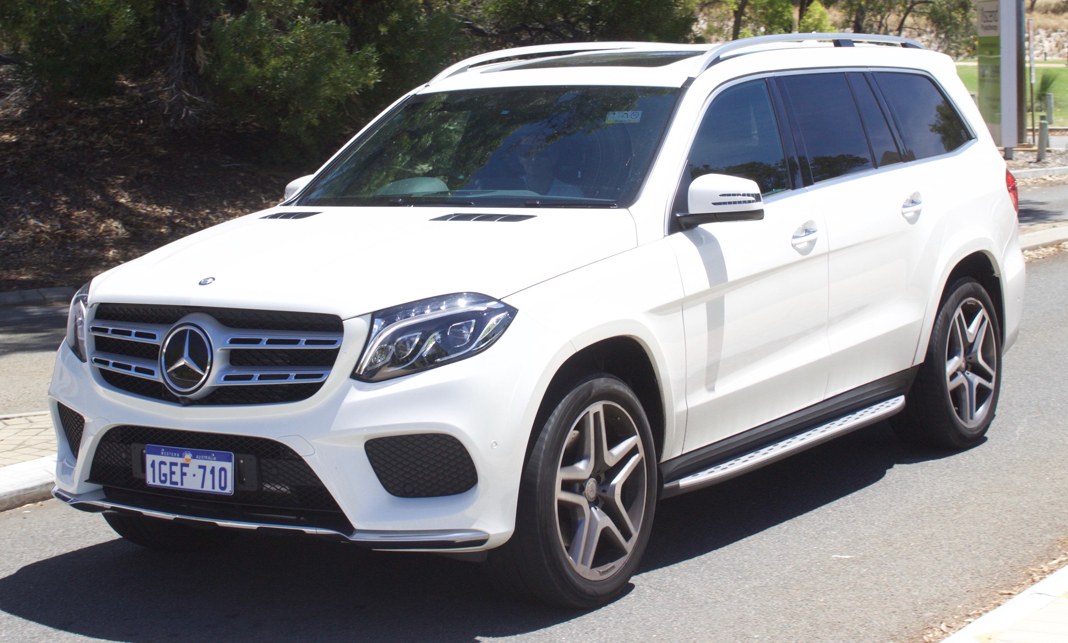 2016 Mercedes-Benz GLS 350d (X 166) 4MATIC wagon. Photographed in Mount Claremont, Western Australia, Australia.